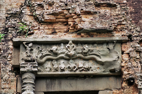 S1 Sanctuary. Sambor Prei Kuk. Cambodia